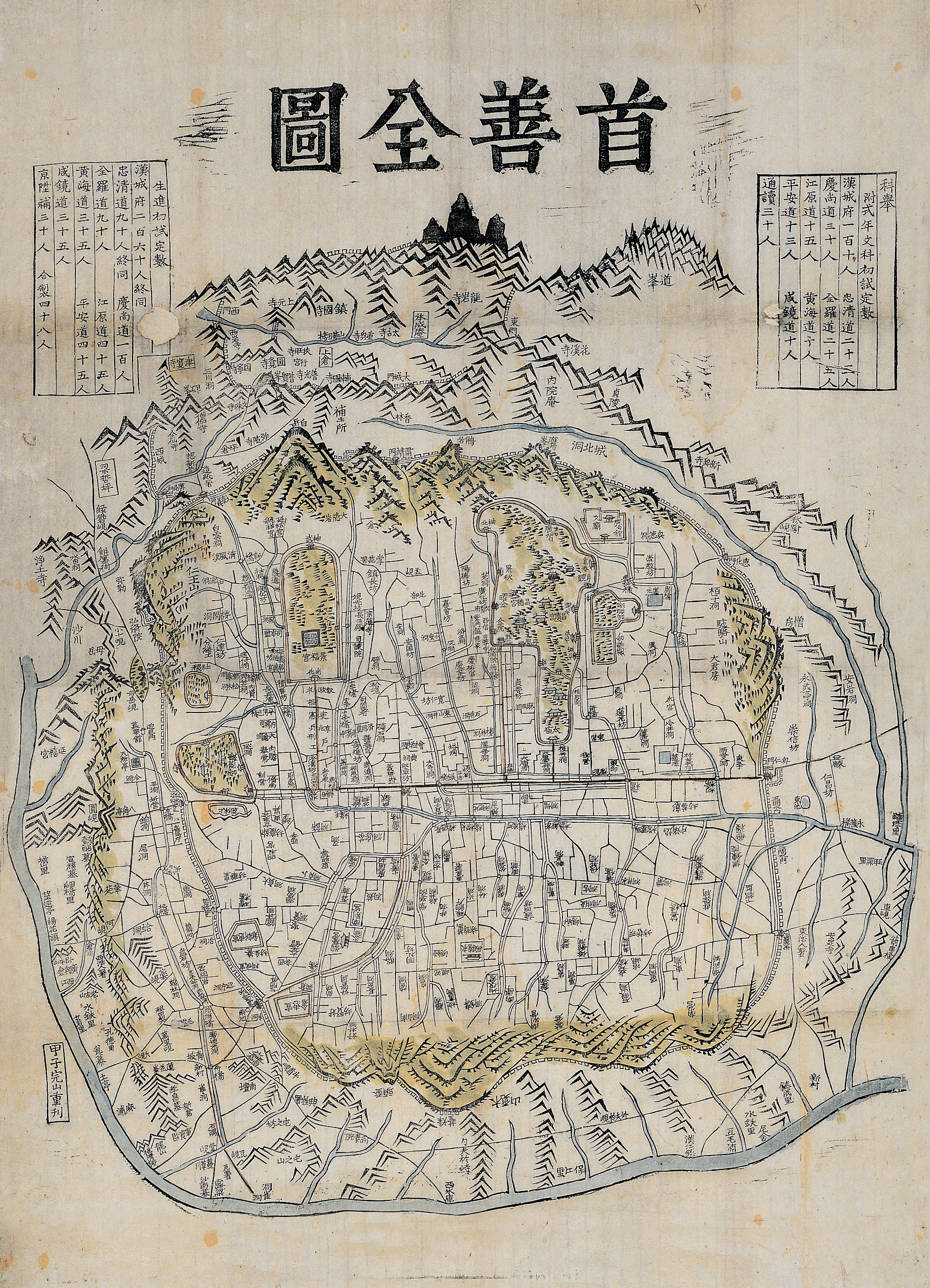 Suseonjeondo, map of Seoul, the capital of Korea and Joseon Dynasty (around 1840)